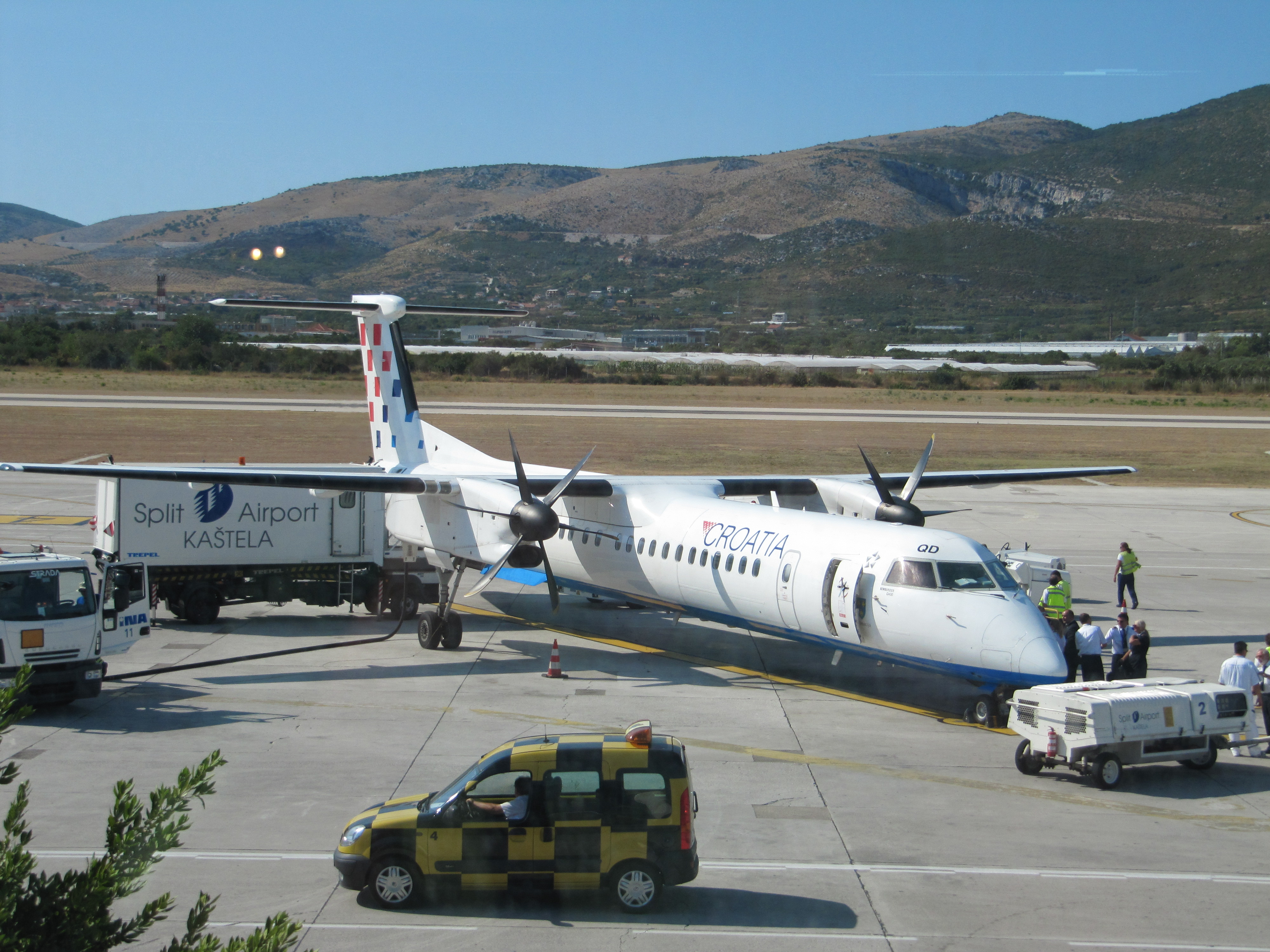 Croatia Airlines at Split Airport, Bombardier Q400